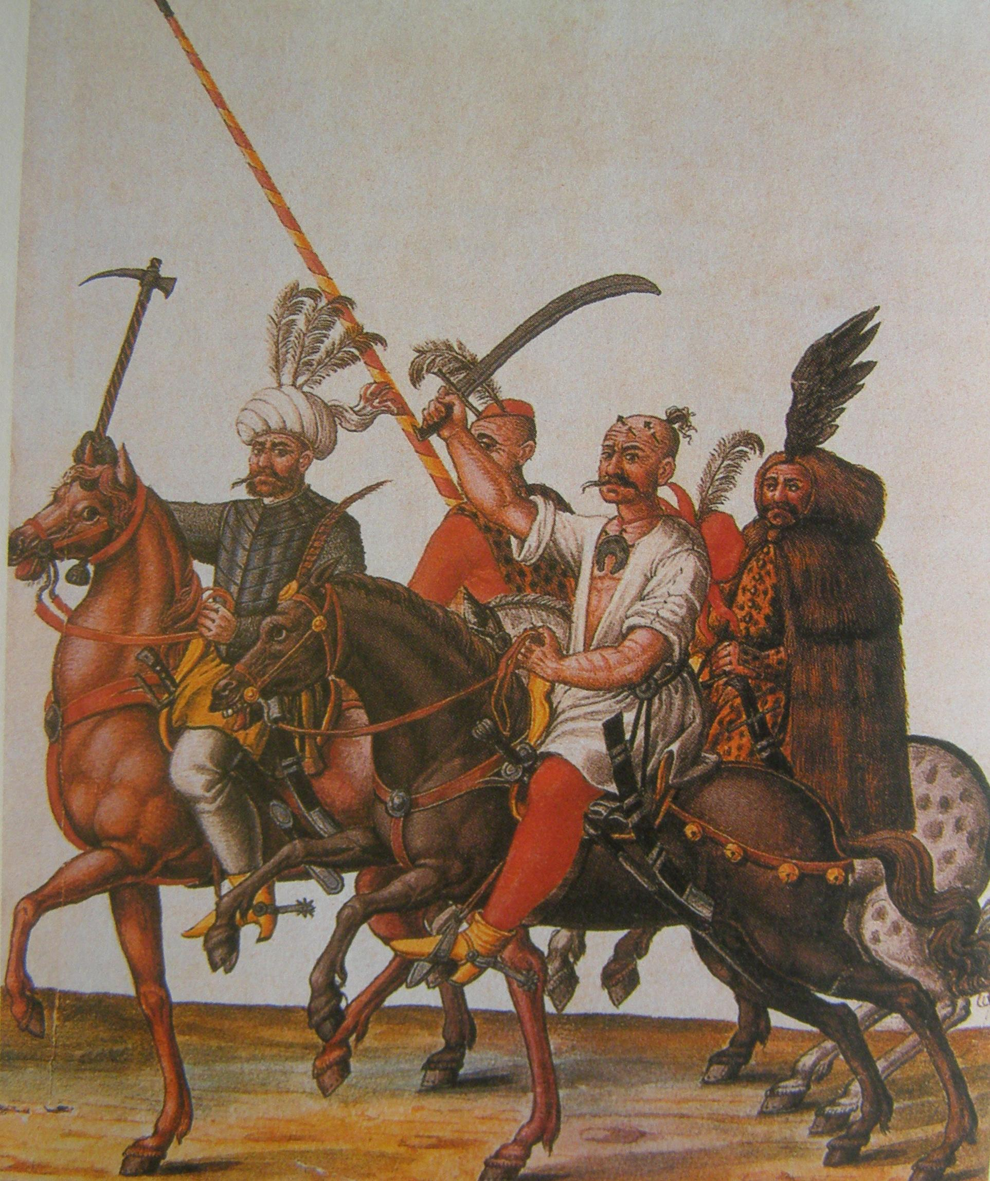 Marauding Ottomans in 1568